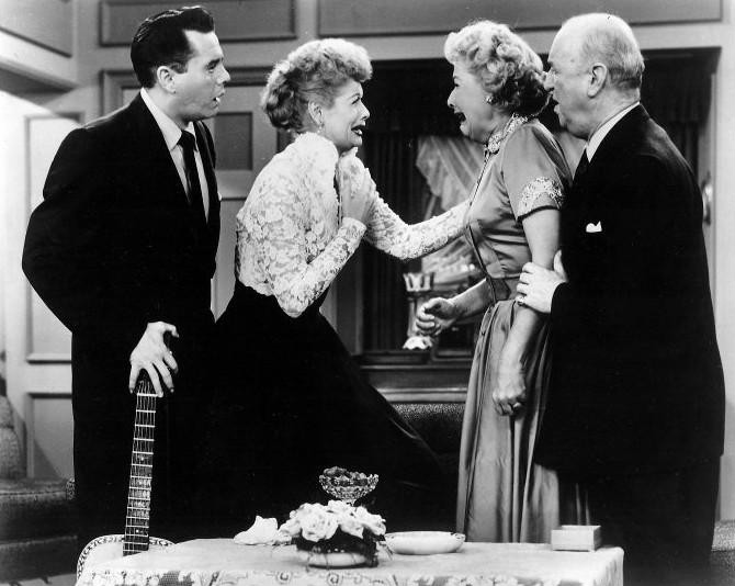 Photo from the 14 November 1955 episode of I Love Lucy, "Face to Face". When Ricky and Lucy are scheduled to do a television interview program, Ricky's agent says their apartment is a "dump" and that they need to move to more luxurious quarters before being televised at home.